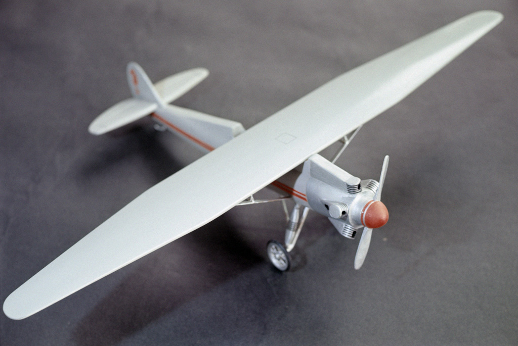 “Aircraft model designed by Sergei Korolyov”. An aircraft model designed by Academician Sergei Korolyov (1907-1966), Chief Constructor of the first battle and space rockets, artificial Earth satellites, manned space ships, founder of applied cosmonautics, twice Hero of Socialist Labor.